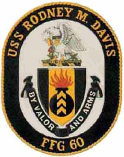 Coat of arms of the frigate USS Rodney M Davis (FFG-60).